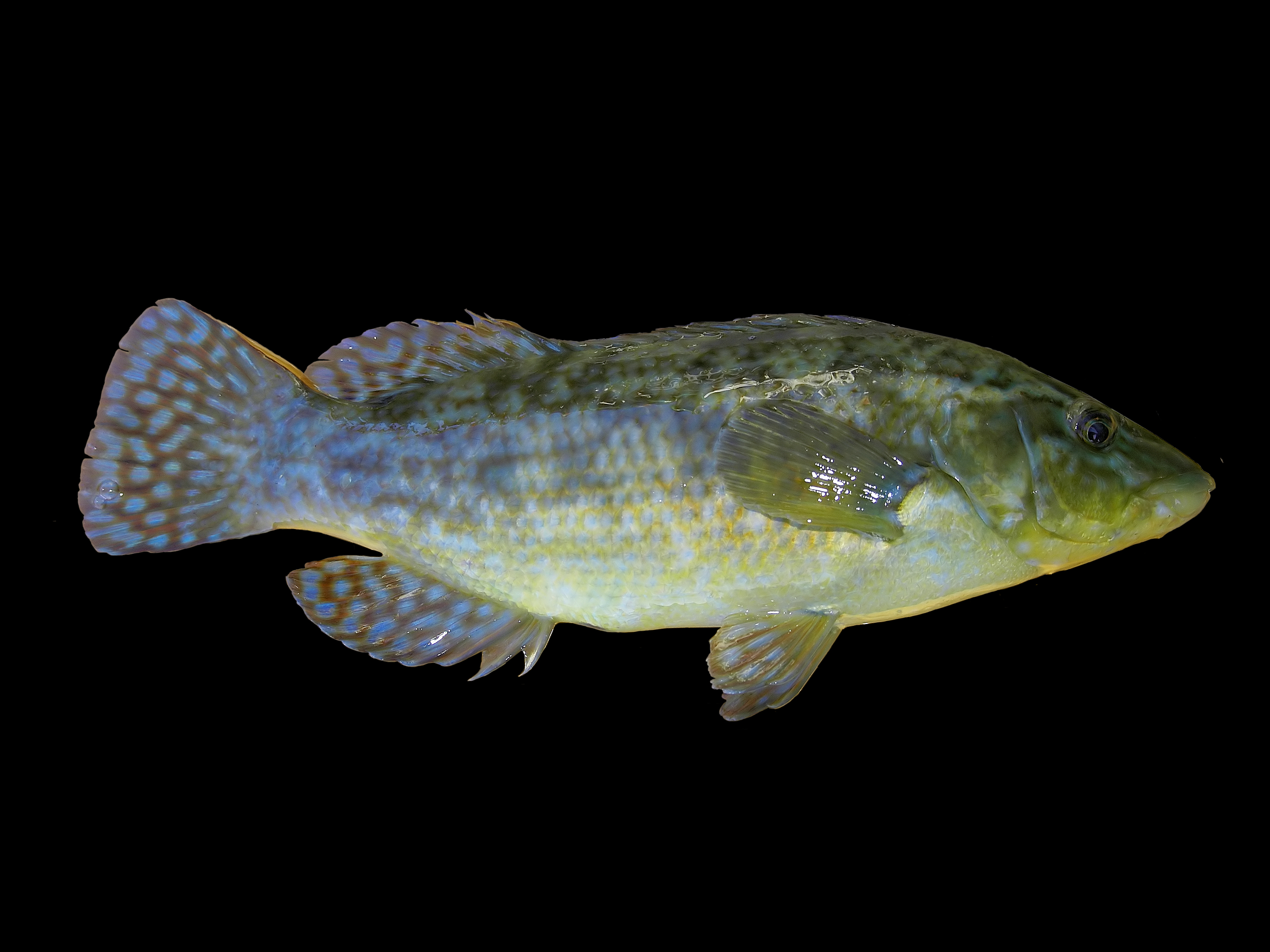 Ballan Wrasse from the Goote Bank in Belgian territorial waters..